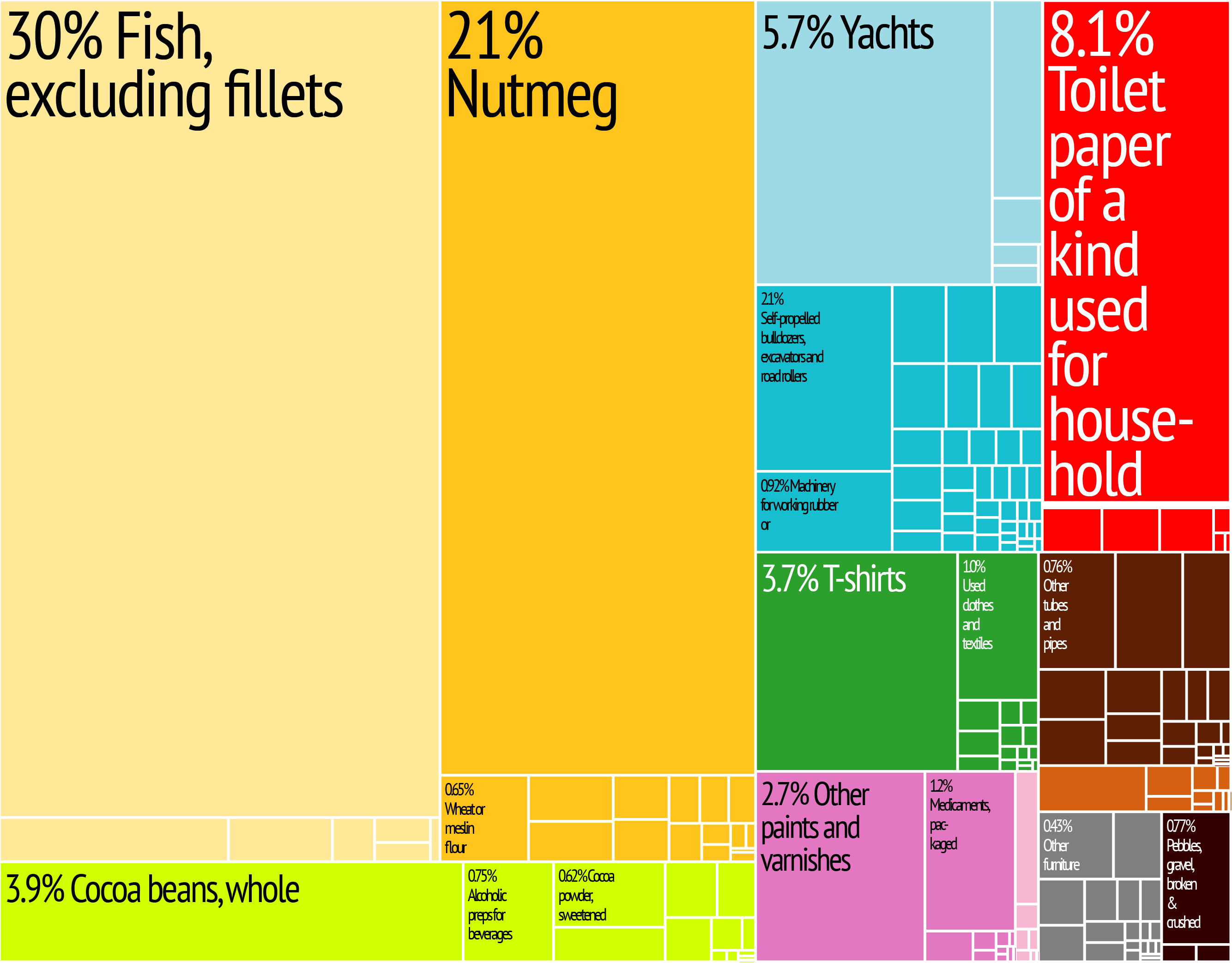 Grenada Export Treemap from MIT Harvard Economic Complexity Observatory